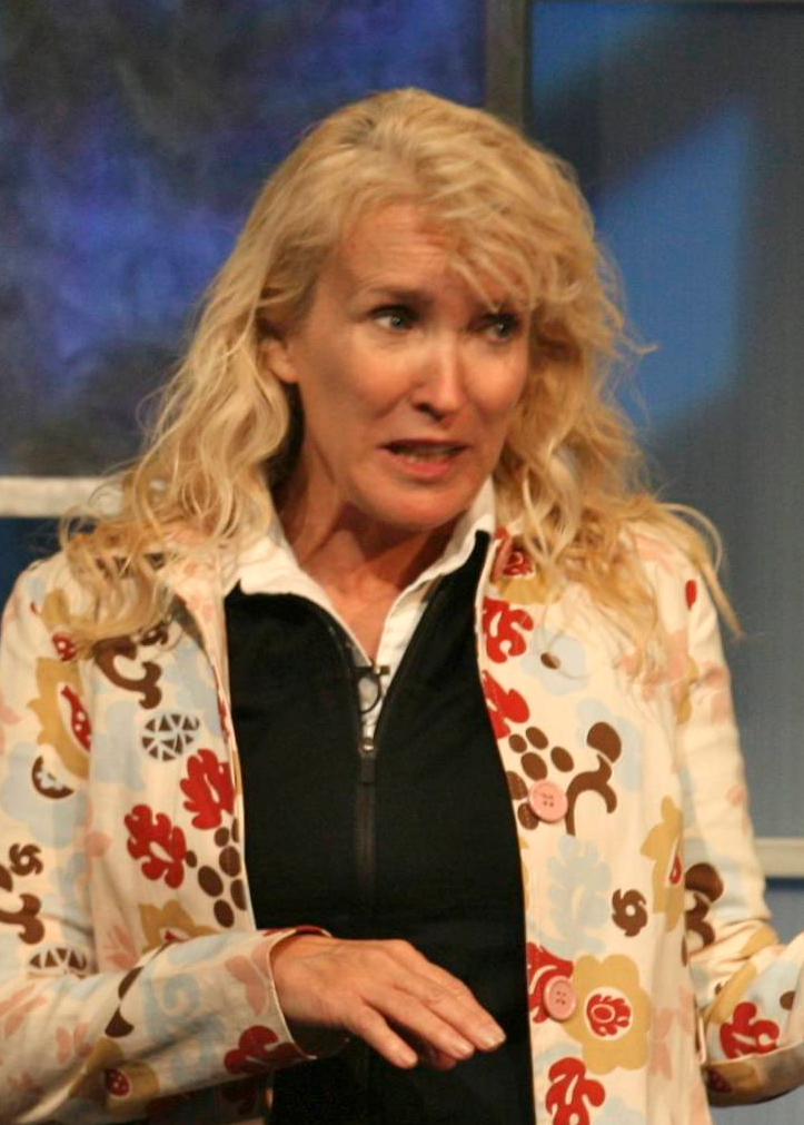 Kathy Sierra presenting "How to Kick Ass"; - and yes of course she had the obligatory puppy slides in her slide deck. Fun.